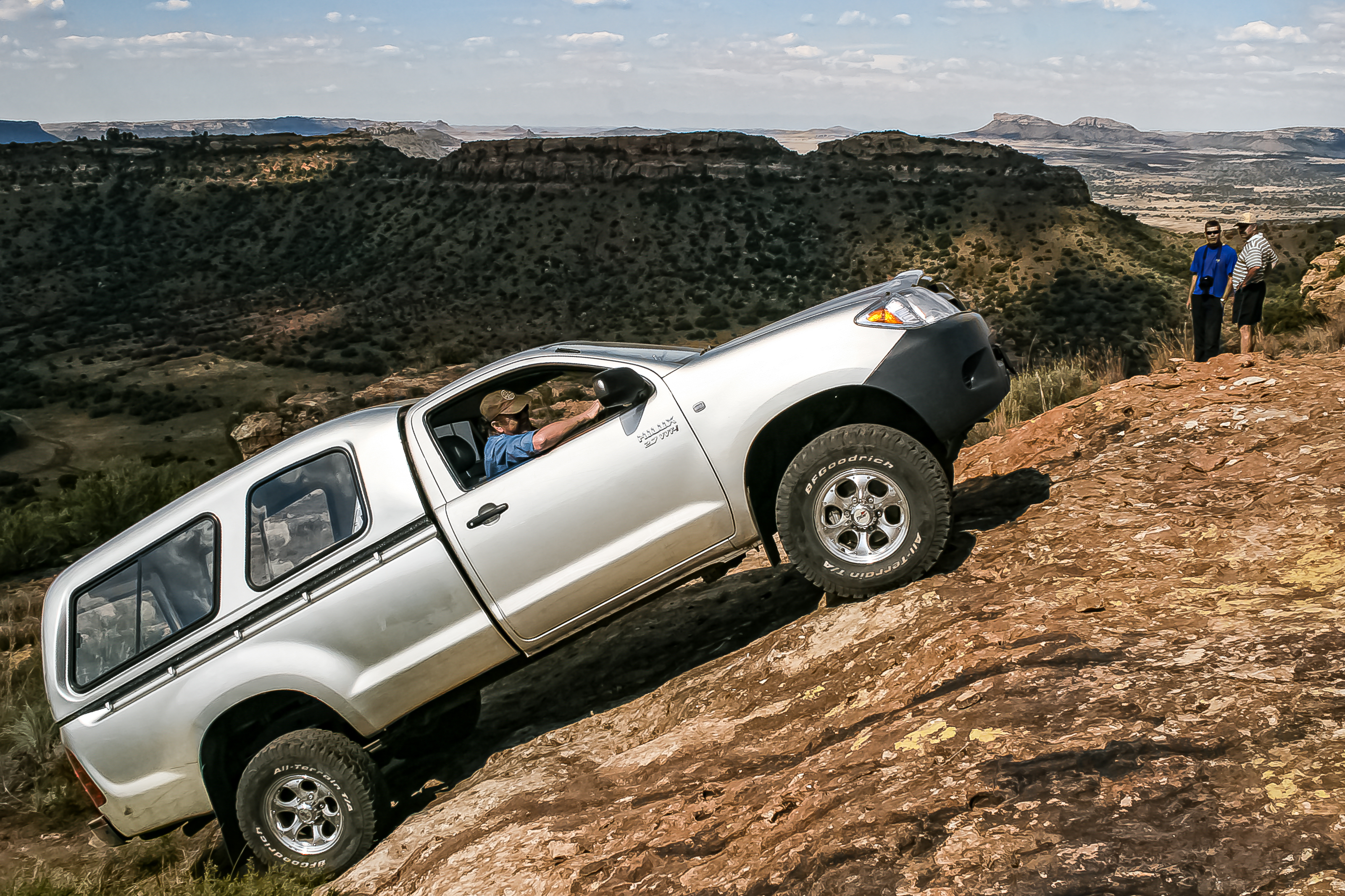 This is an image with the theme "Africa on the Move or Transport" from: South Africa